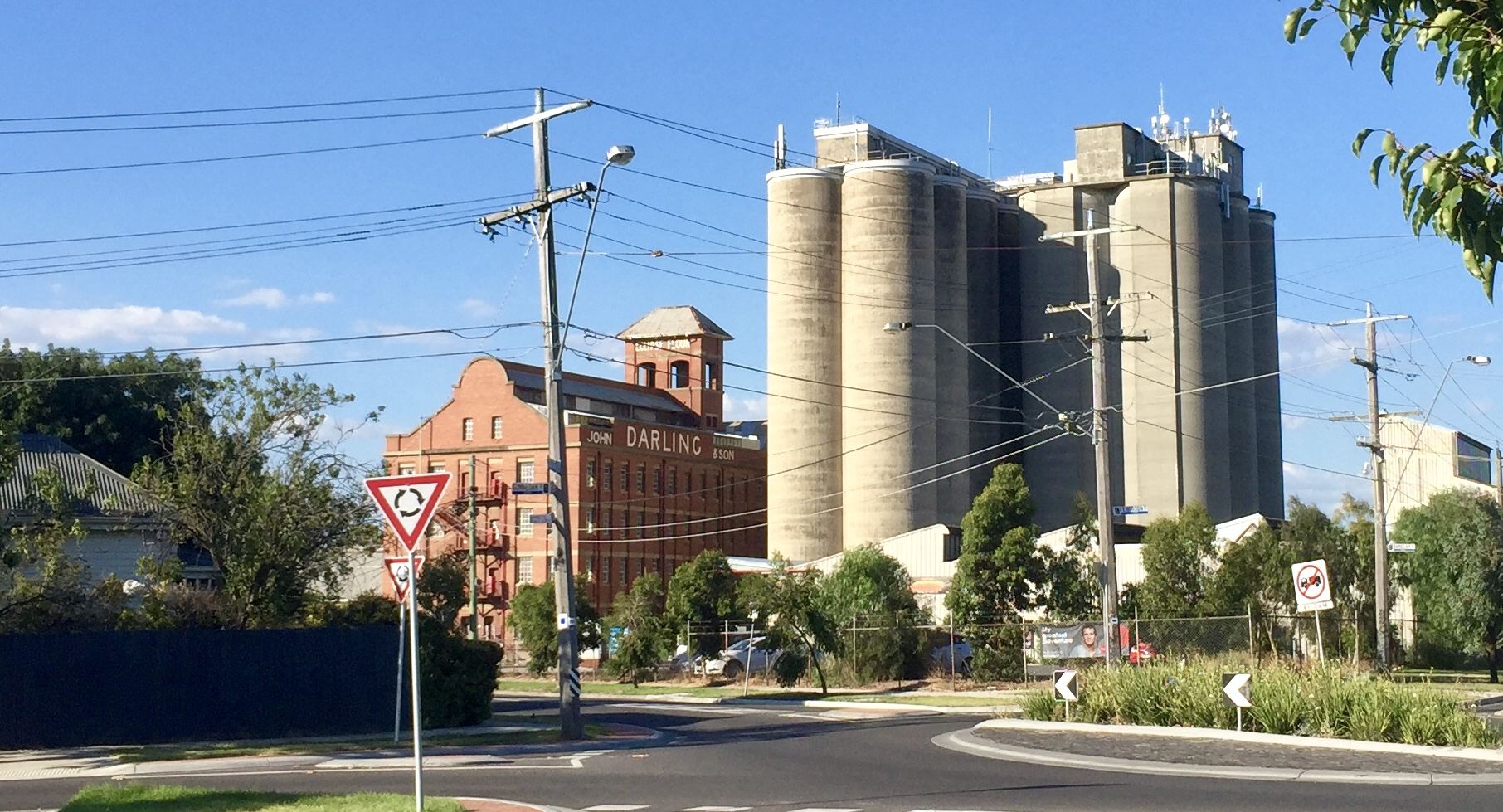 The John Darling & Son flour mill in Albion, Victoria. Looking north-eastwards.